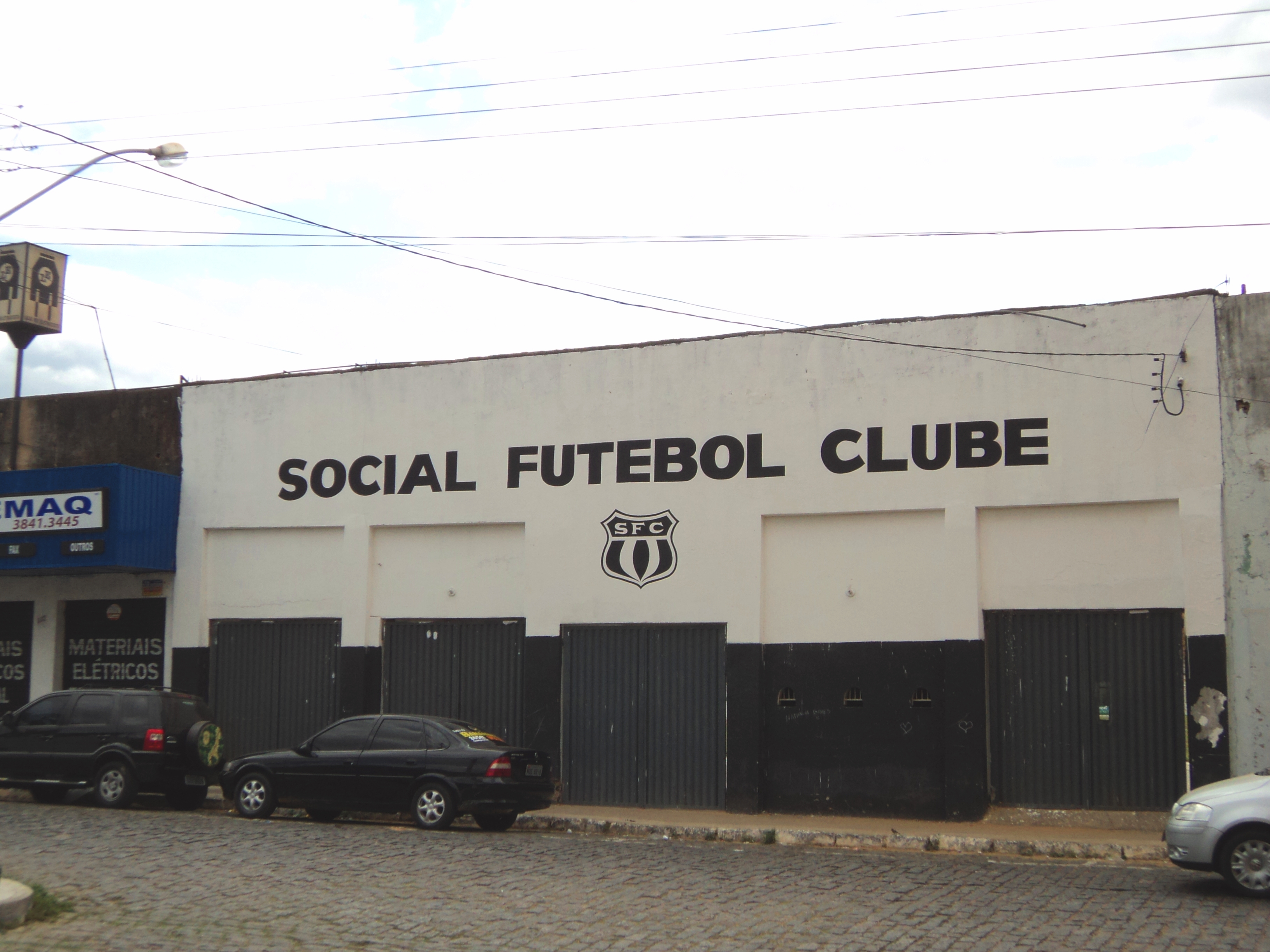 Main entrace of the Louis Ensch Stadium, in Coronel Fabriciano, Minas Gerais, Brazil.